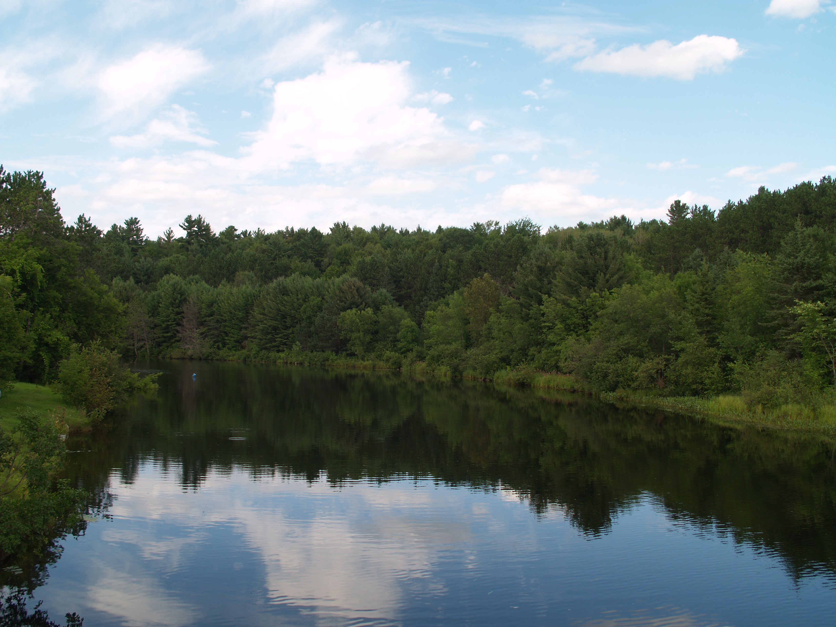 The Burnt River through Kinmount, Ontario